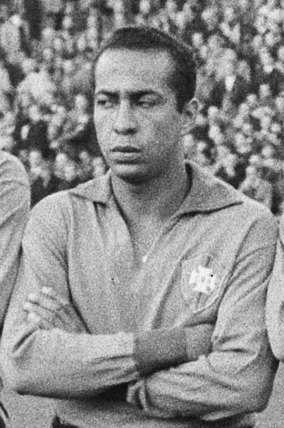 Zequinha.